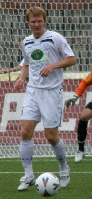 Viktor Svistunov in action for FC Avangard Podolsk